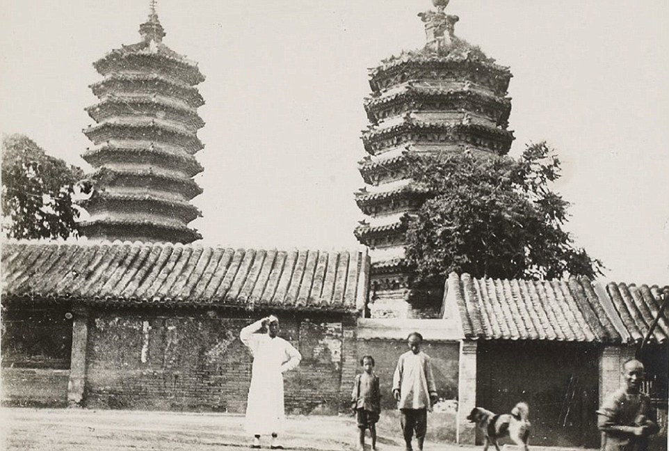 The twin pagodas of Qingshou Temple in Beijing. The pagodas were demolished in 1954.